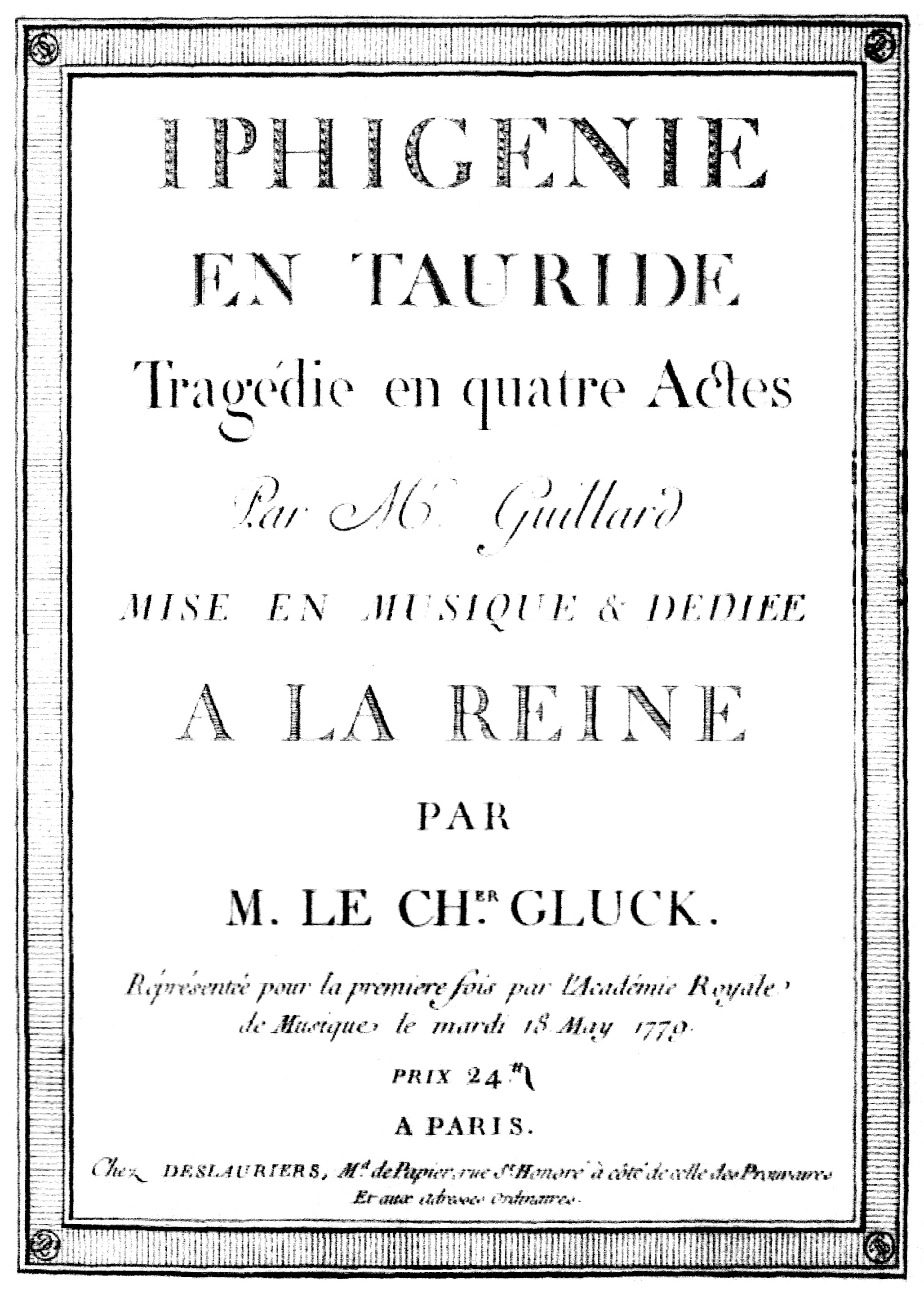 Title page of the first printed edition of the score of Gluck's Iphigénie en Tauride